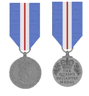 Queen's Gallantry Medal. Front and reverse